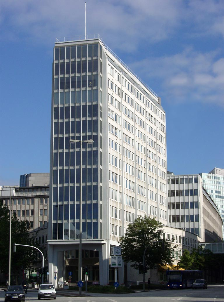 The Axel-Springer-Building in Hamburg, Germany. This is a photograph of an architectural monument.